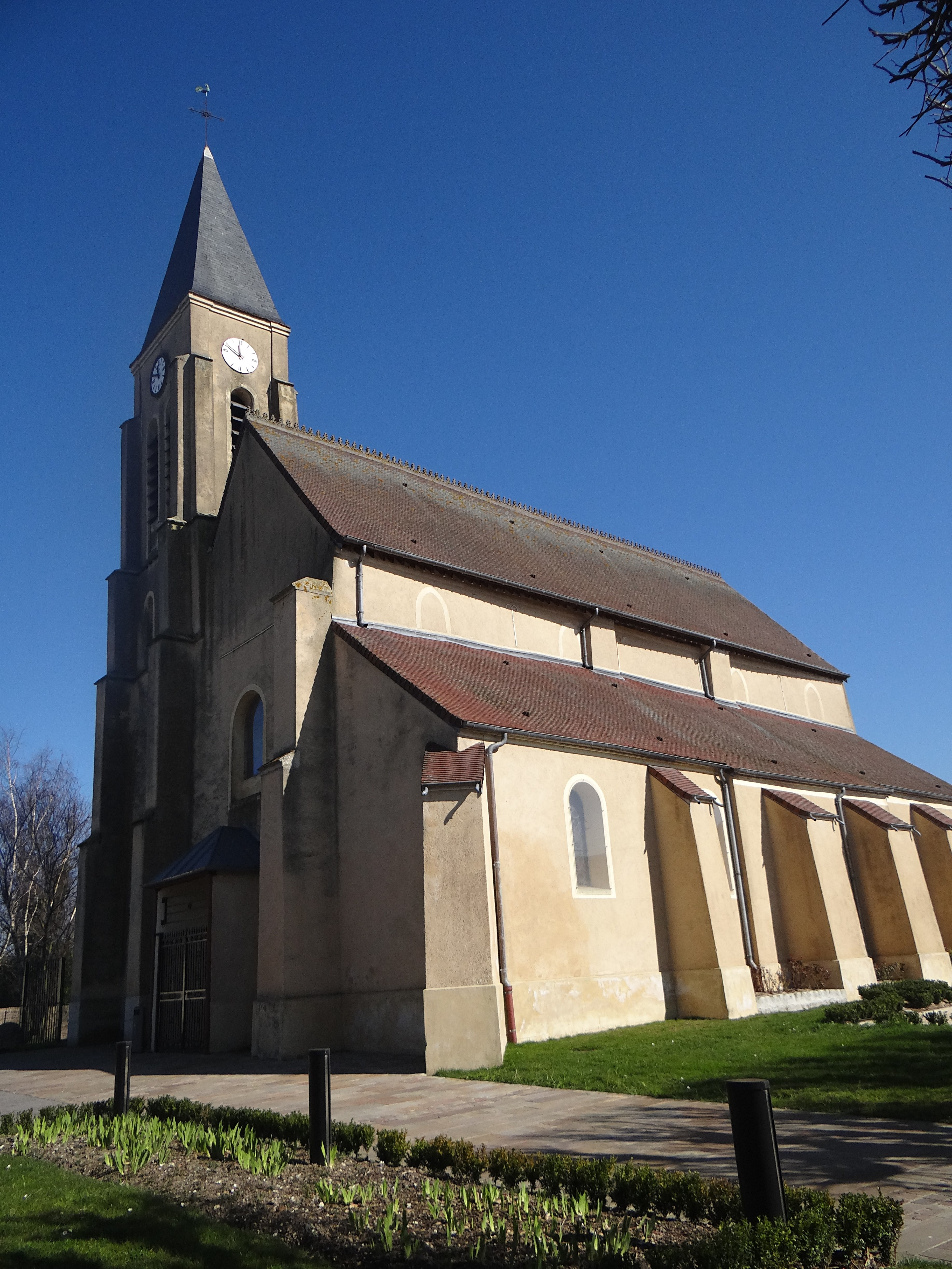 Church of Saint Médard, Saint-Mard, Seine-et-Marne, France.